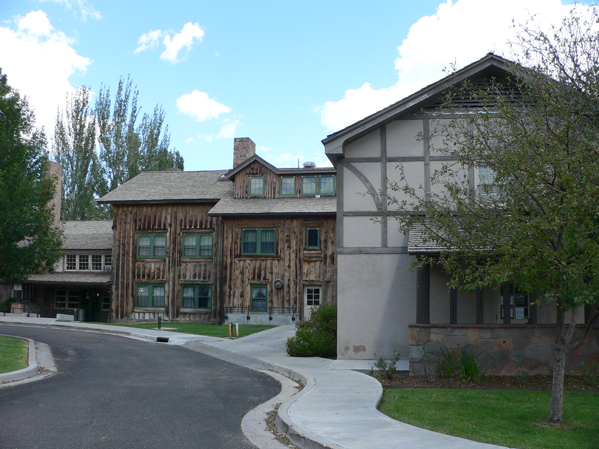 Photograph of Fuller Lodge, Los Alamos, New Mexico